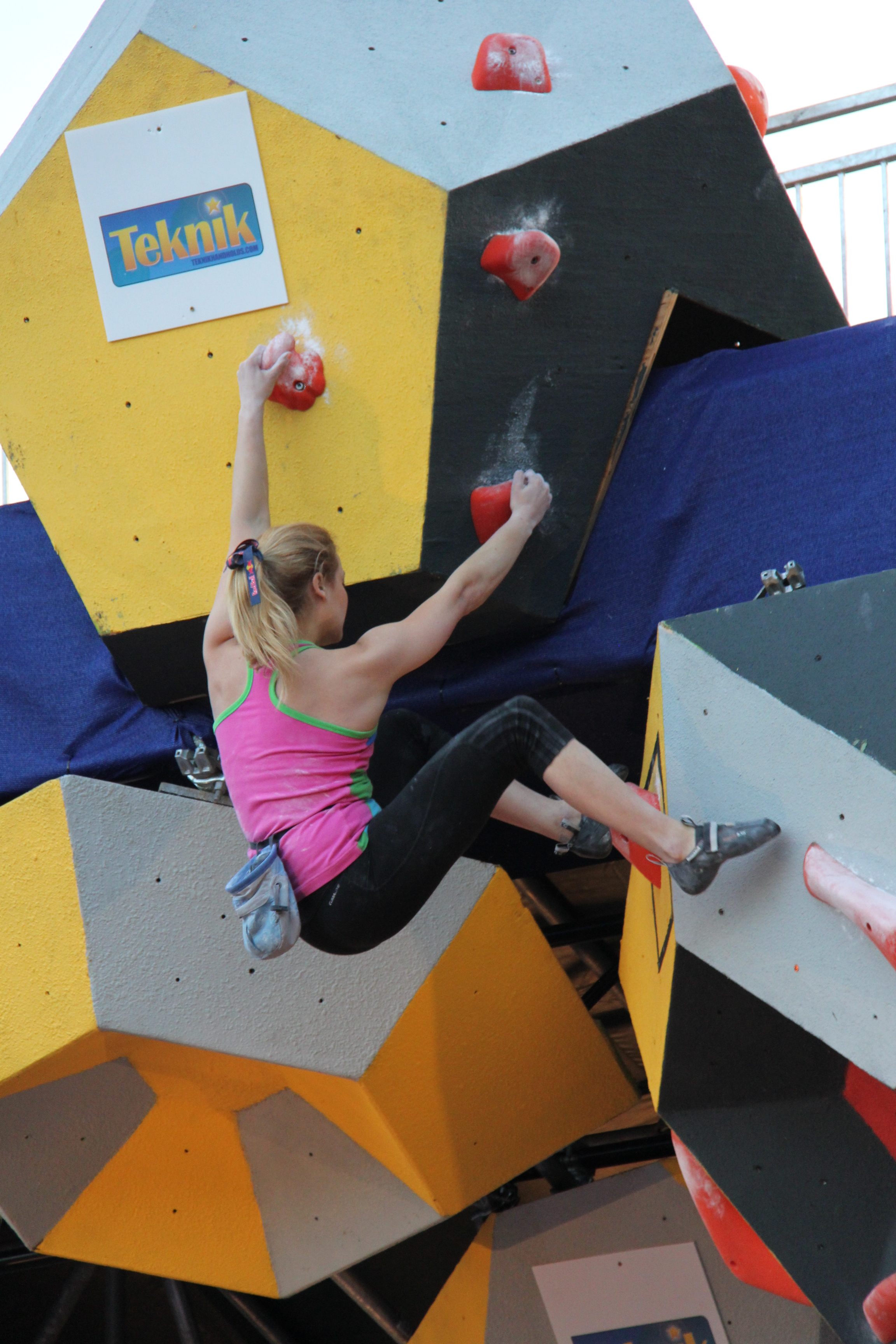 Bikes, Kayaks, 5k, 10k, Air Dogs, Wall Climbing, Slack Lining, Music, Food, People and so much more!